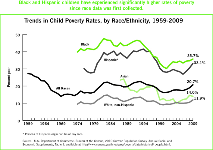 Trends in Child Poverty Rates, by Race/Ethnicity, 1959-2009